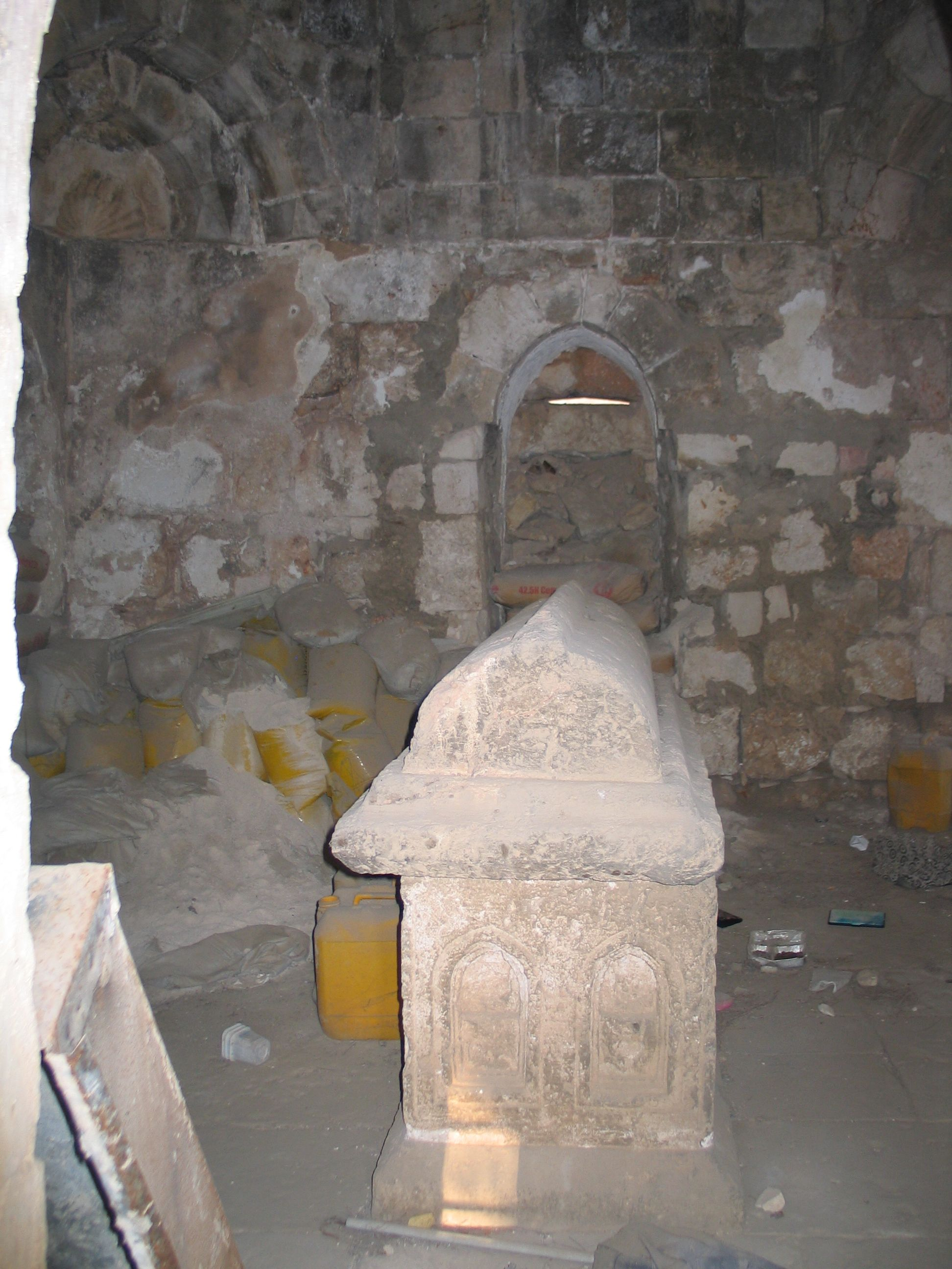 Mamilla pool and cemetery, Jerusalem, Israel.